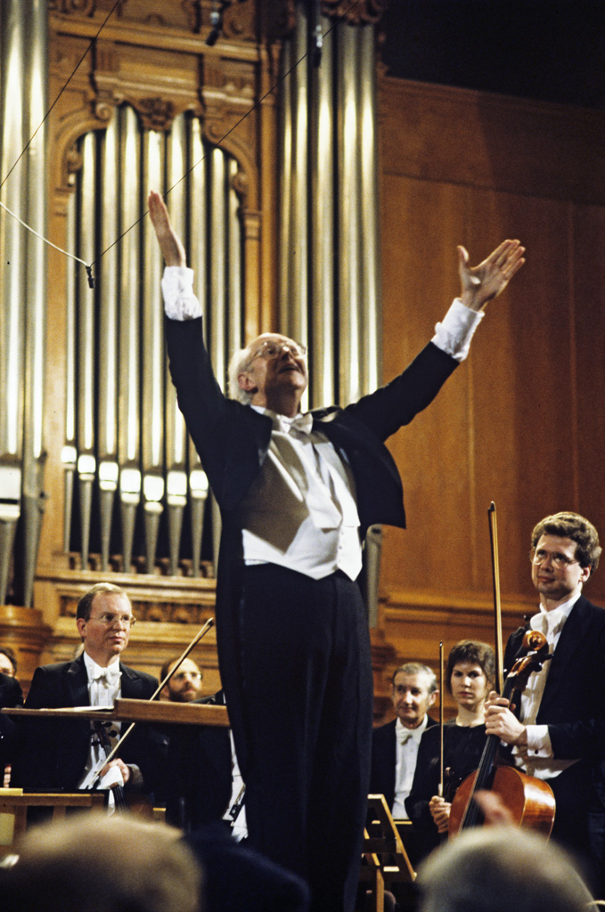 “Mstislav Rostropovich, chief conductor and art director of U.S. National Symphony Orchestra”. Mstislav Rostropovich, chief conductor and art director of U.S. National Symphony Orchestra, greeting the audience. Bolshoi Hall of the Tchaikovsky Conservatory.